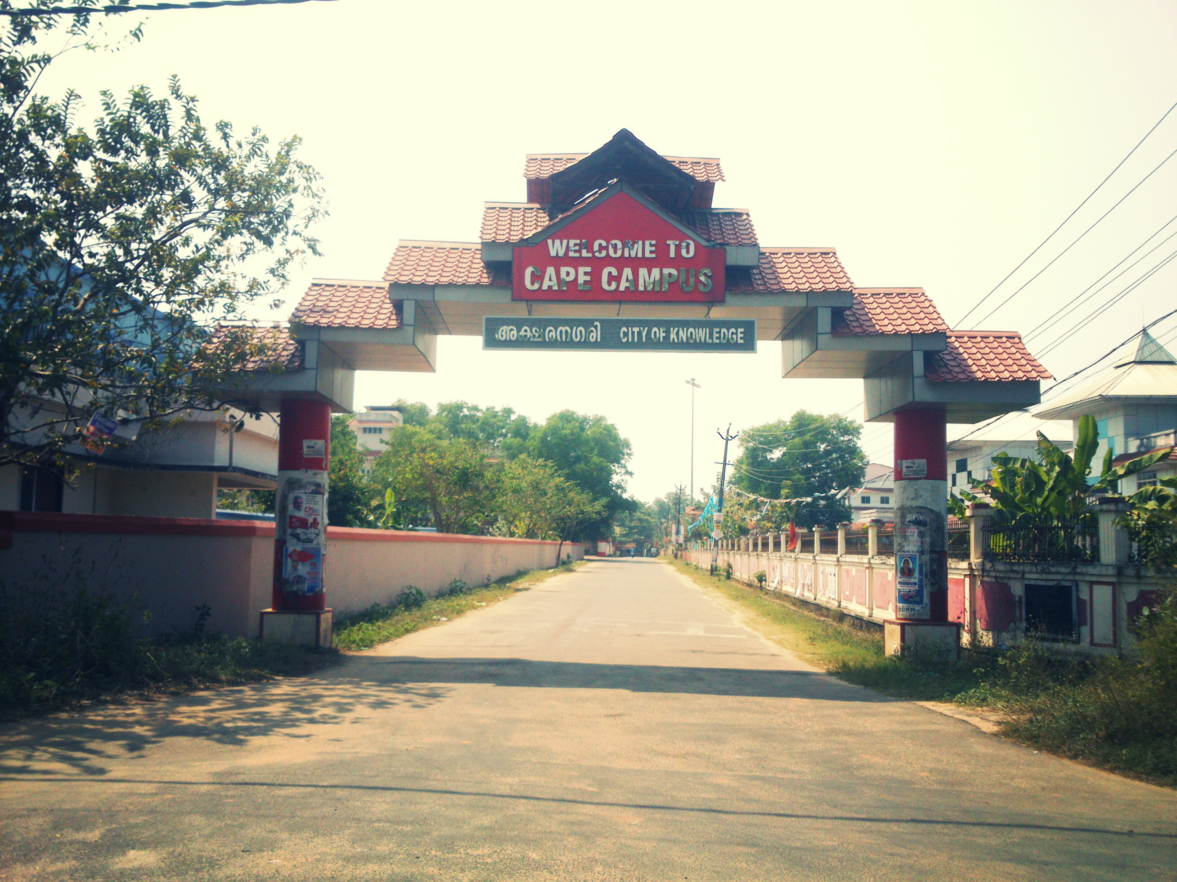 Image shows the entrance to CAPE Campus which is an educational healthcare campus situated in Punnapra.